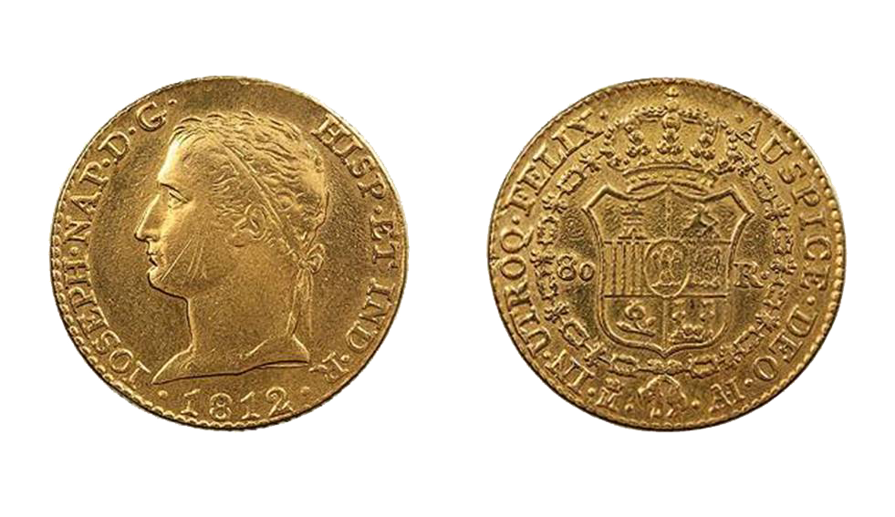 Spanish gold coin of 80 reales minted in 1812 in Madrid under the reign of Joseph I Bonaparte.